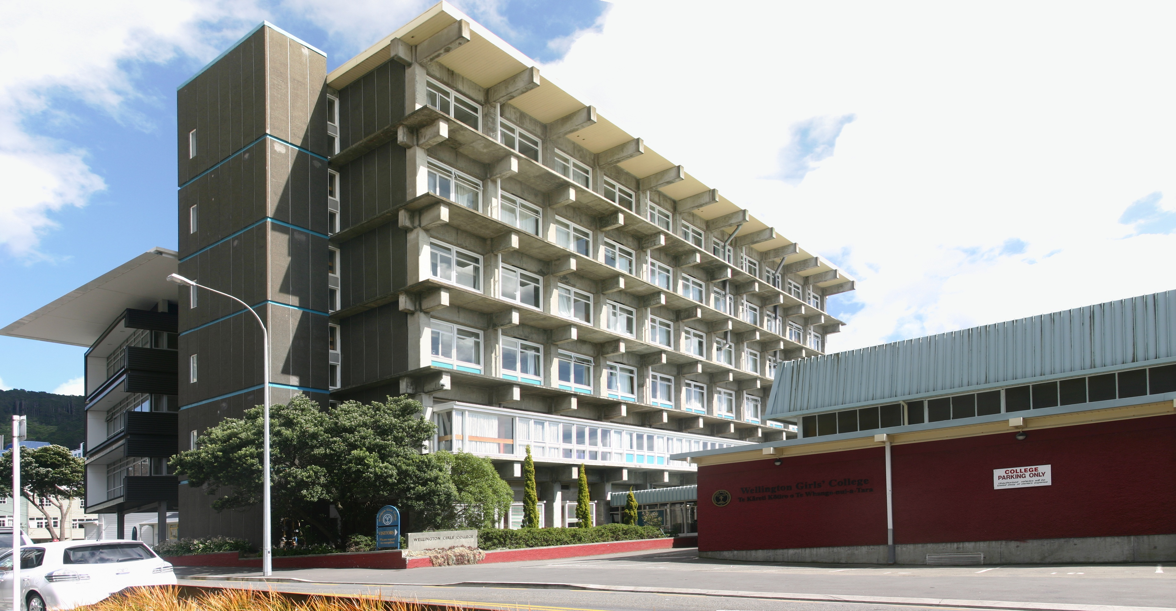 Wellington Girls College from Pipitea Street. Wellington, New Zealand. Panorama of three images stitched together with Hugin